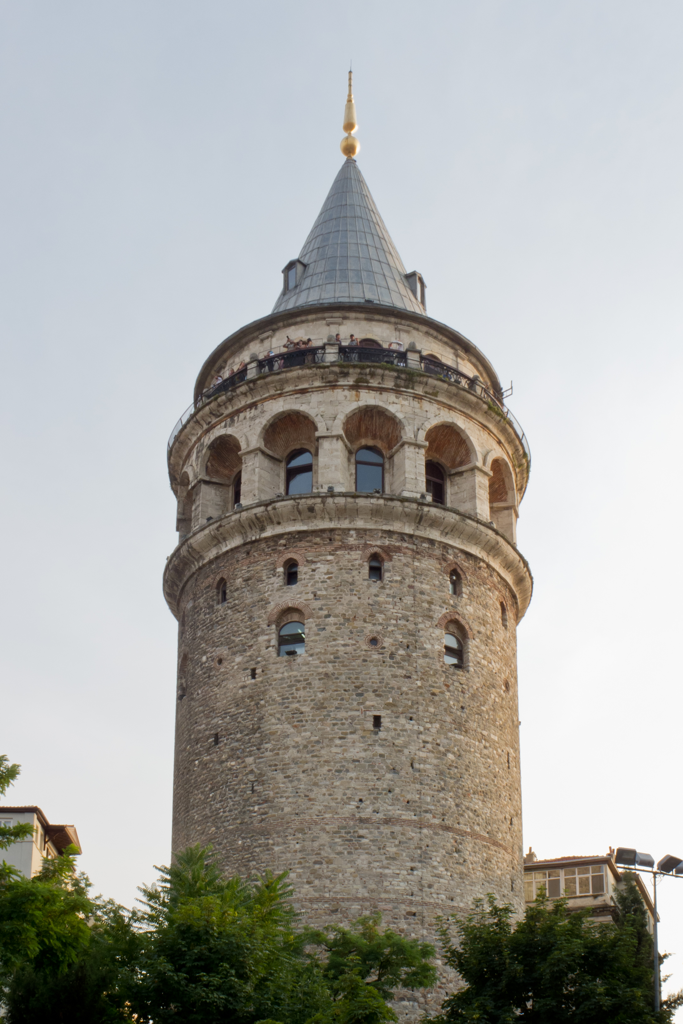 Galata Tower, Istanbul, Turkey.